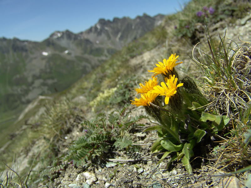 Crepis rhaetica Hegetschw on Piz Val Gronda, Tyrol, Austria